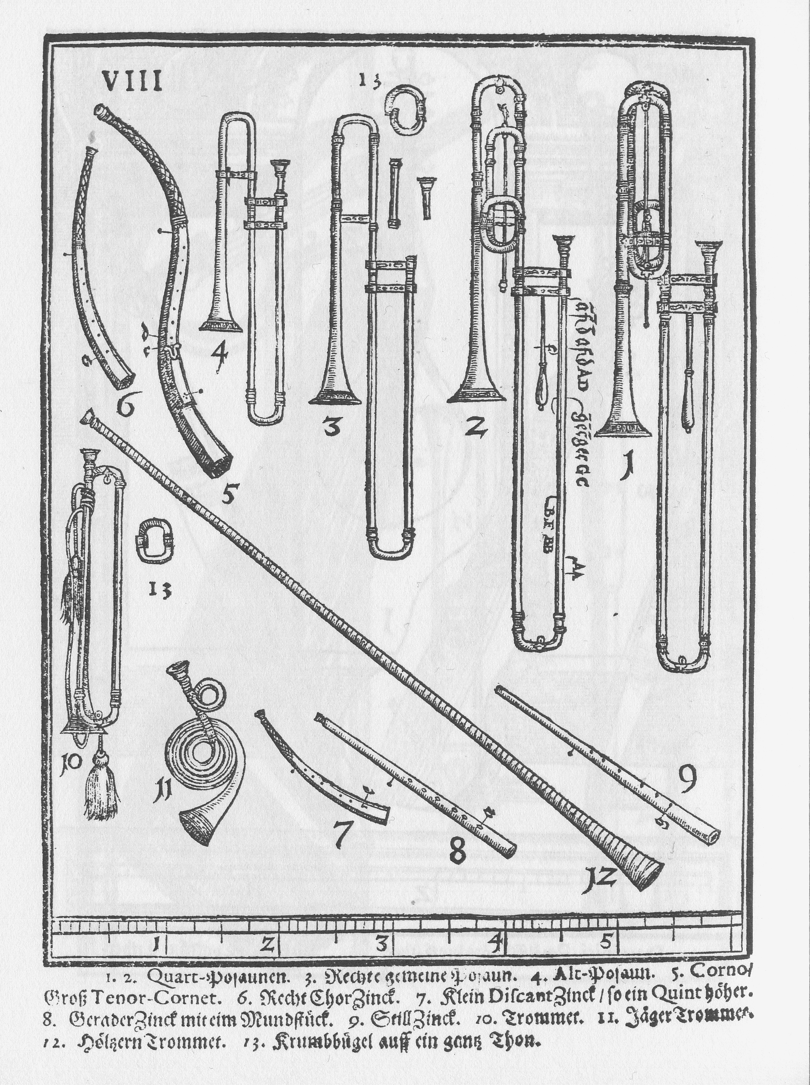 Syntagma Musicum Theatrum Instrumentorum seu Sciagraphia Wolfenbüttel 1620